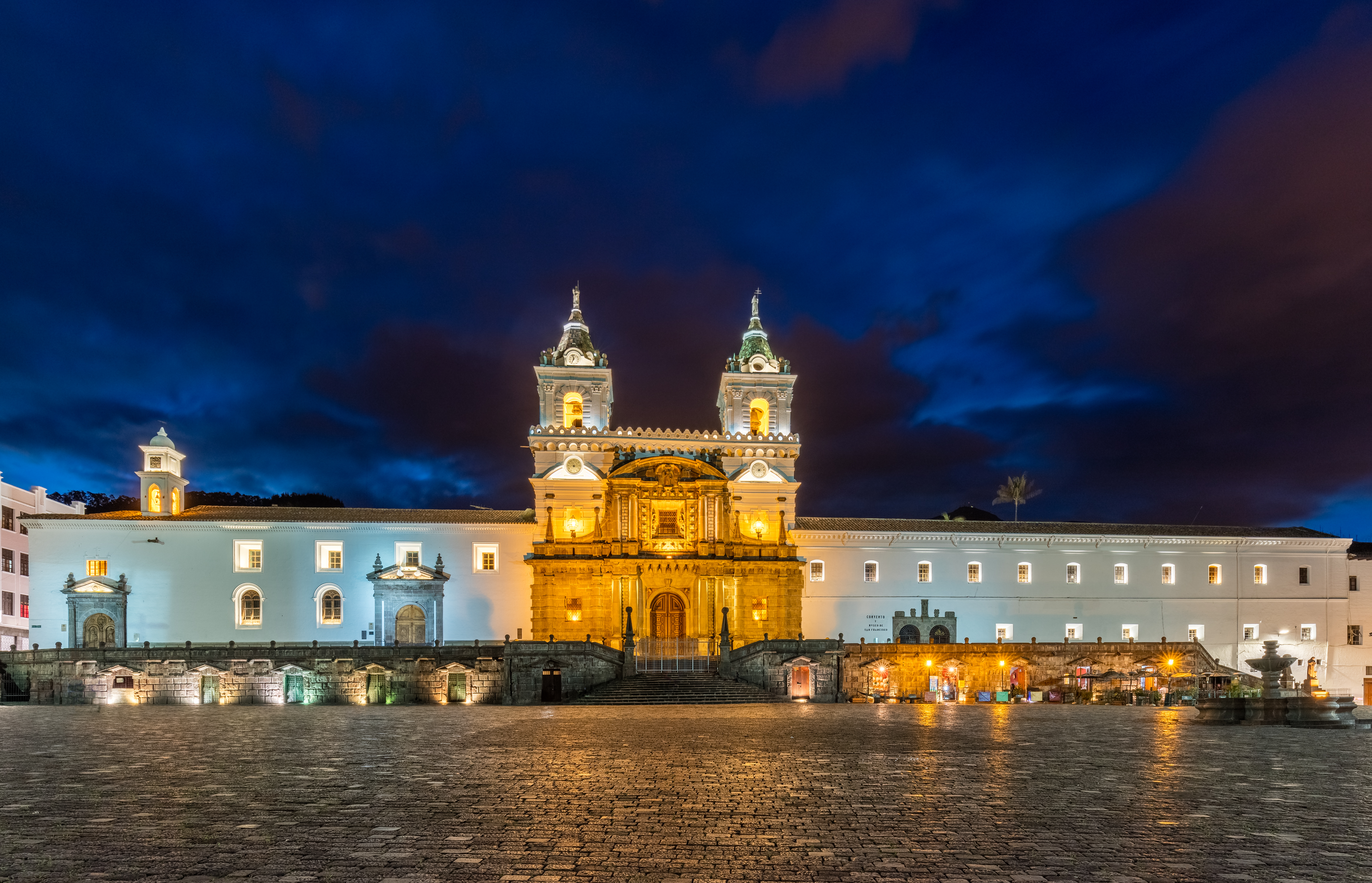 Exterior view of the church and Monastery of St. Francis, Quito, Ecuador. The Roman Catholic temple, completed in the 16th century, is the largest architectural ensemble among the historical structures of colonial Latin America. Construction took 150 years, and the church exhibits a mixture of different architecture styles.